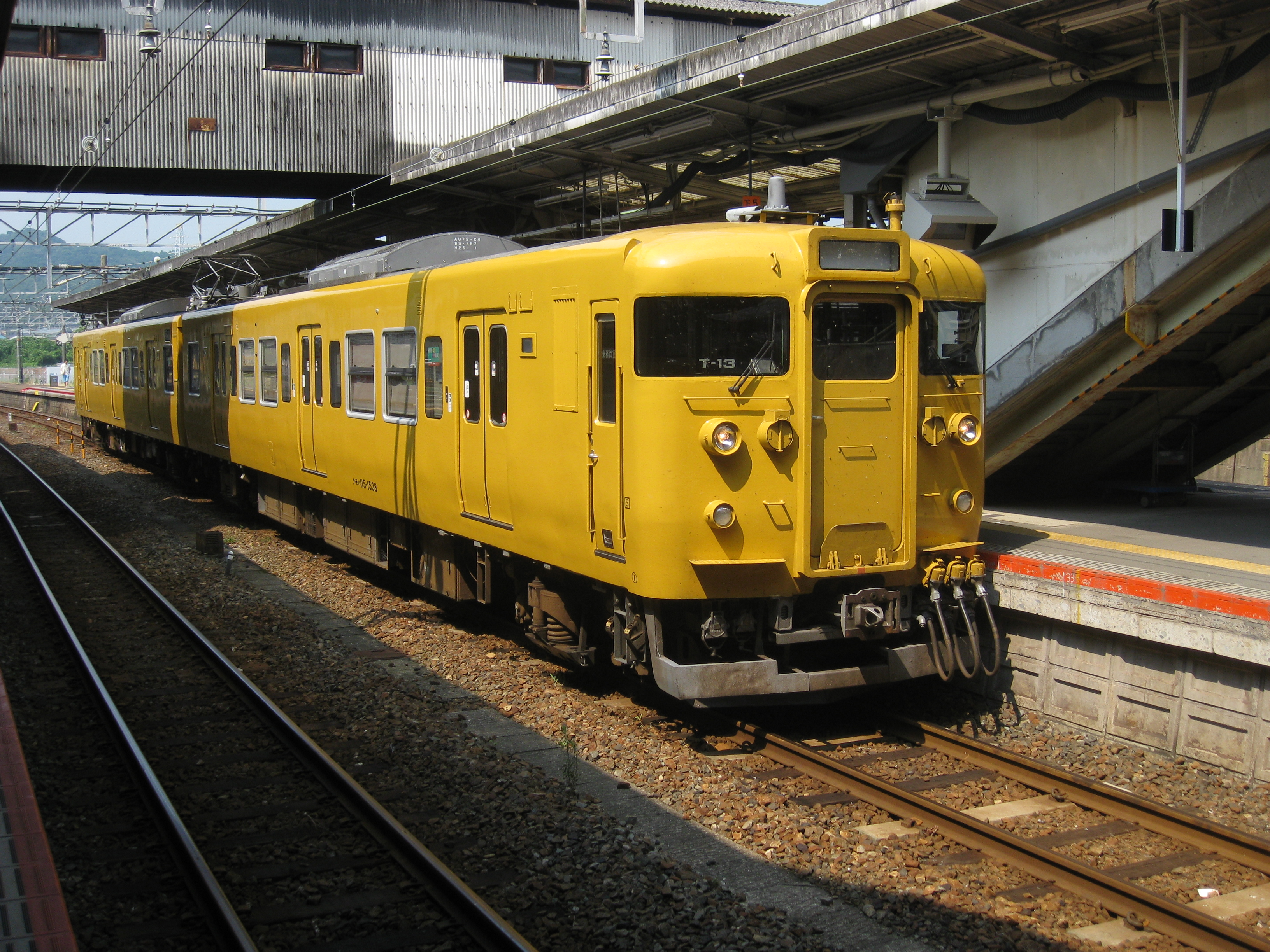 115 series Formation T-13(belong at Shimonoseki Depot).Taken at Shin-Yamaguchi Station